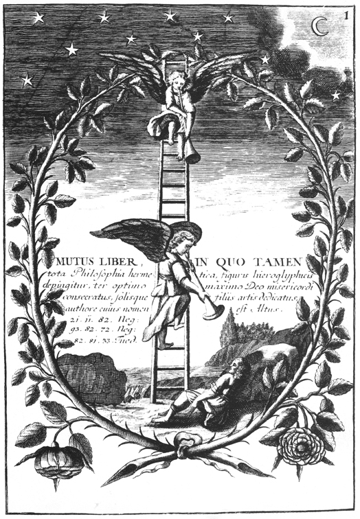 Title page from the 1702 edition of the Mutus Liber, in Jo. Jacobi Mangeti ... Bibliotheca chemica curiosa, seu rerum ad alchemiam pertinentium thesaurus instructissimus: quo non tantum artis auriferae ... verum etiam tractatus omnes virorum ... ad quorum omnium illustrationem additae sunt quamplurimae figurae aeneae. Tomus primus (at the end)